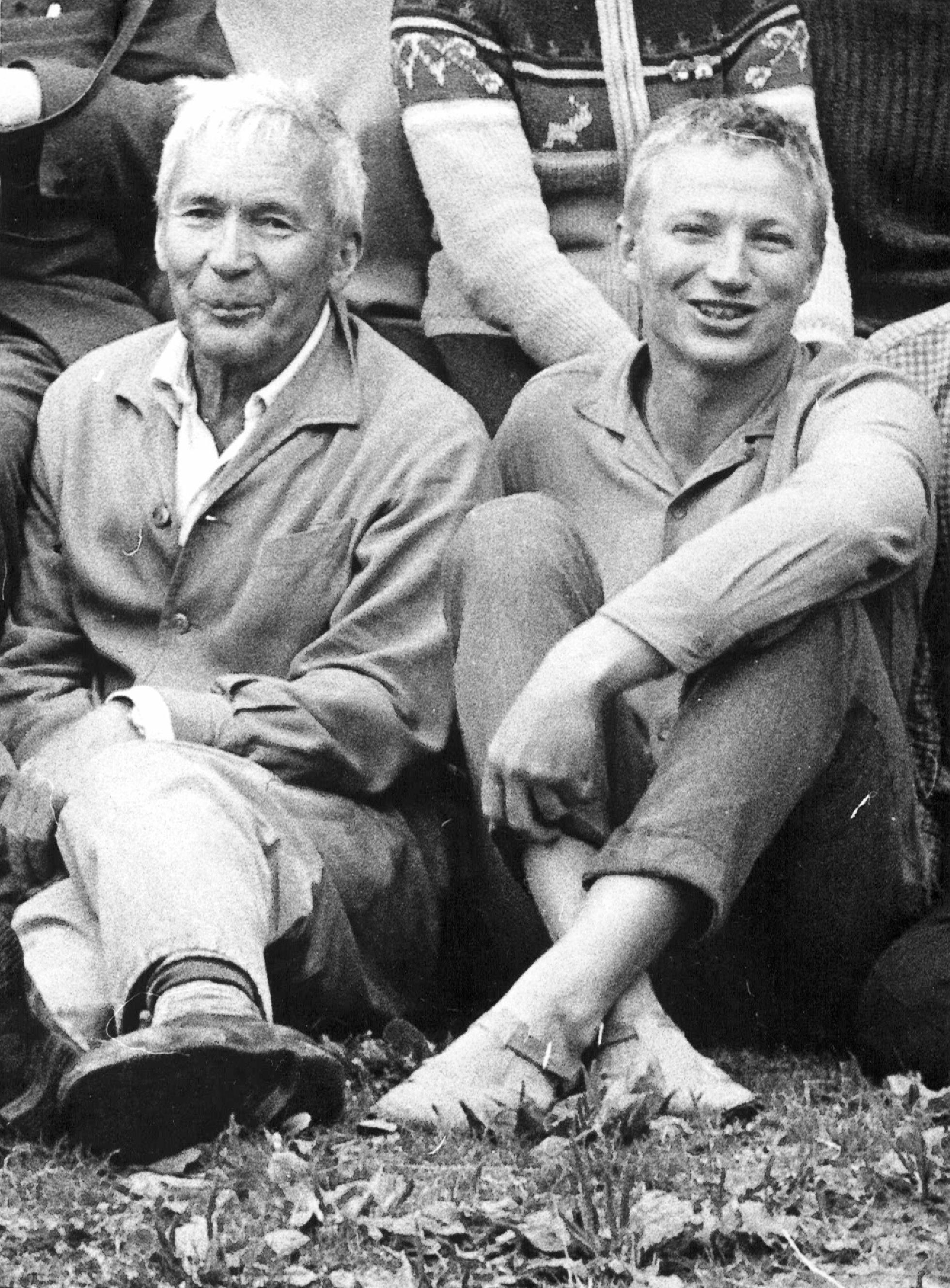 Andrey Kolmogorov and Igor Zurbenko